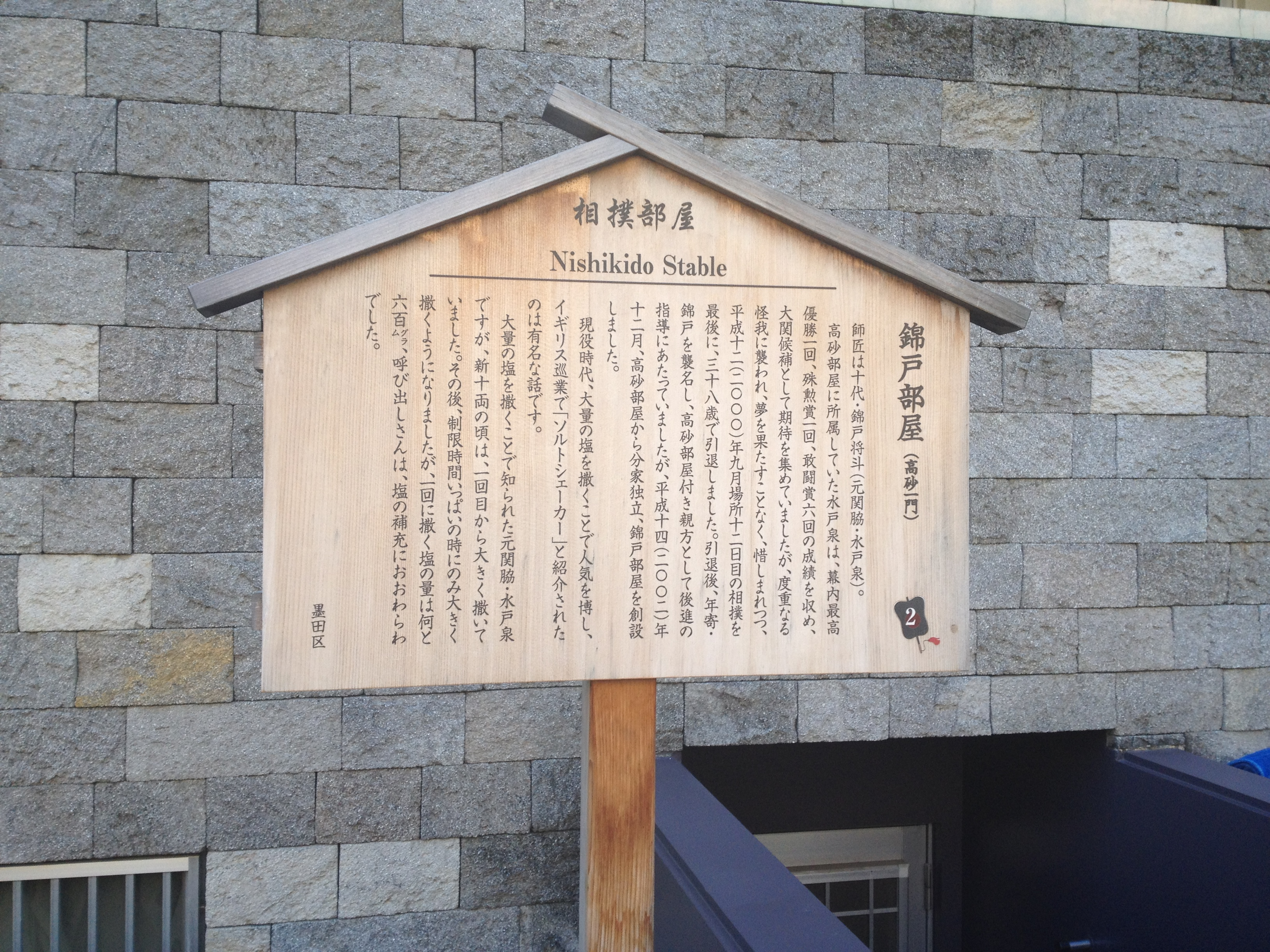 Board commemorating the history of Nishikido next to the front door the stable